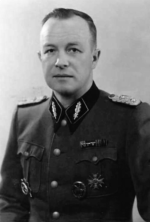 Portrait of SS Standartenfuehrer Franz Ziereis